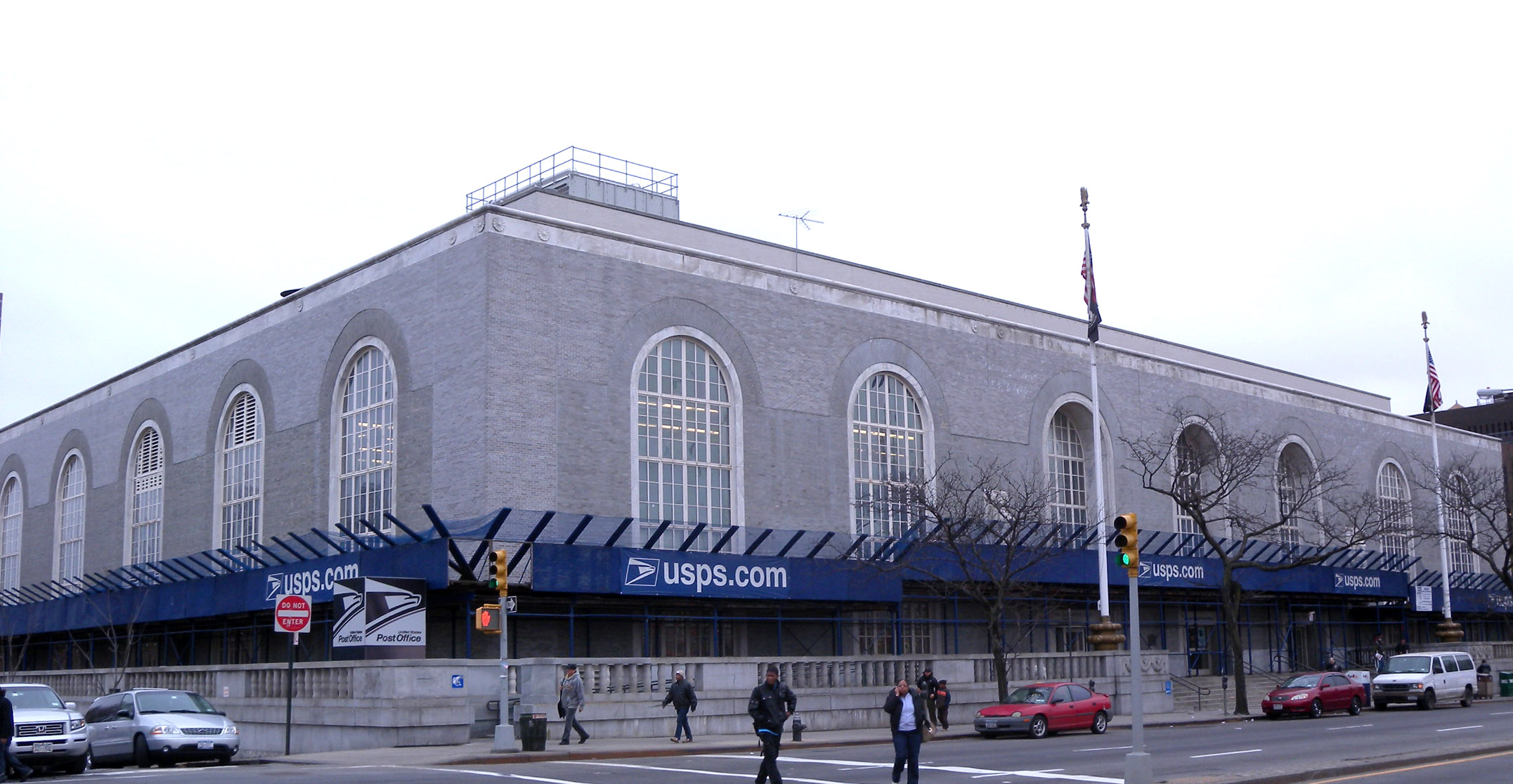 Looking southeast across 150 St and Grand Concourse at Post Office on a cloudy afternoon.